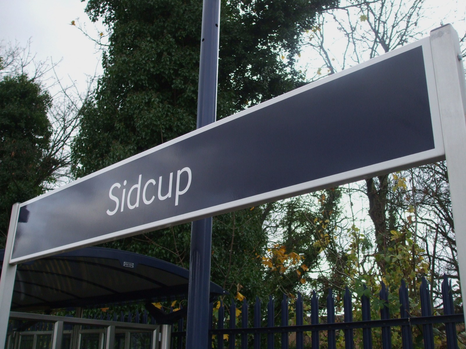 Sidcup station platform signage, in Southeastern blue